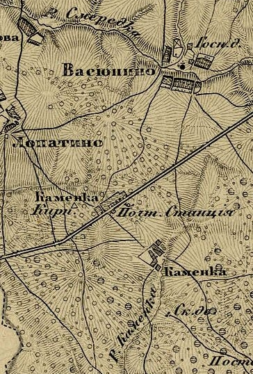 The map